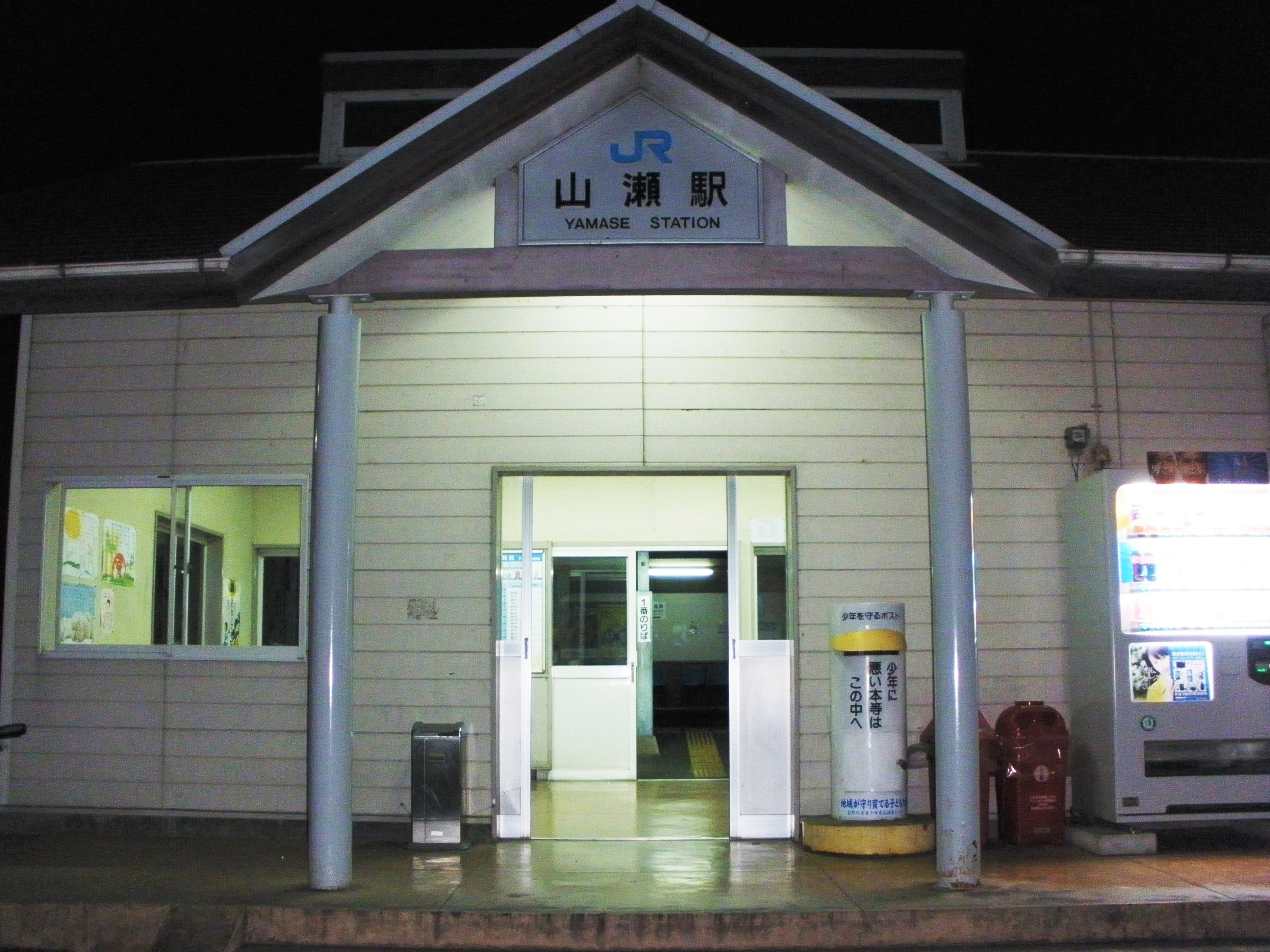 The station building of Yamase station